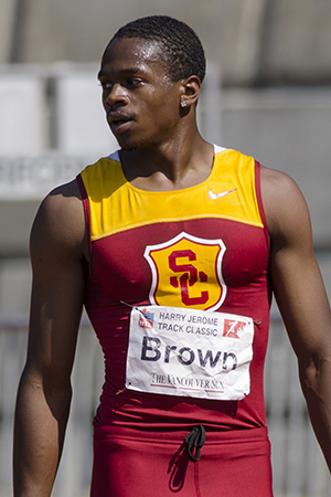 Picture of Canadian sprinter Aaron Brown.